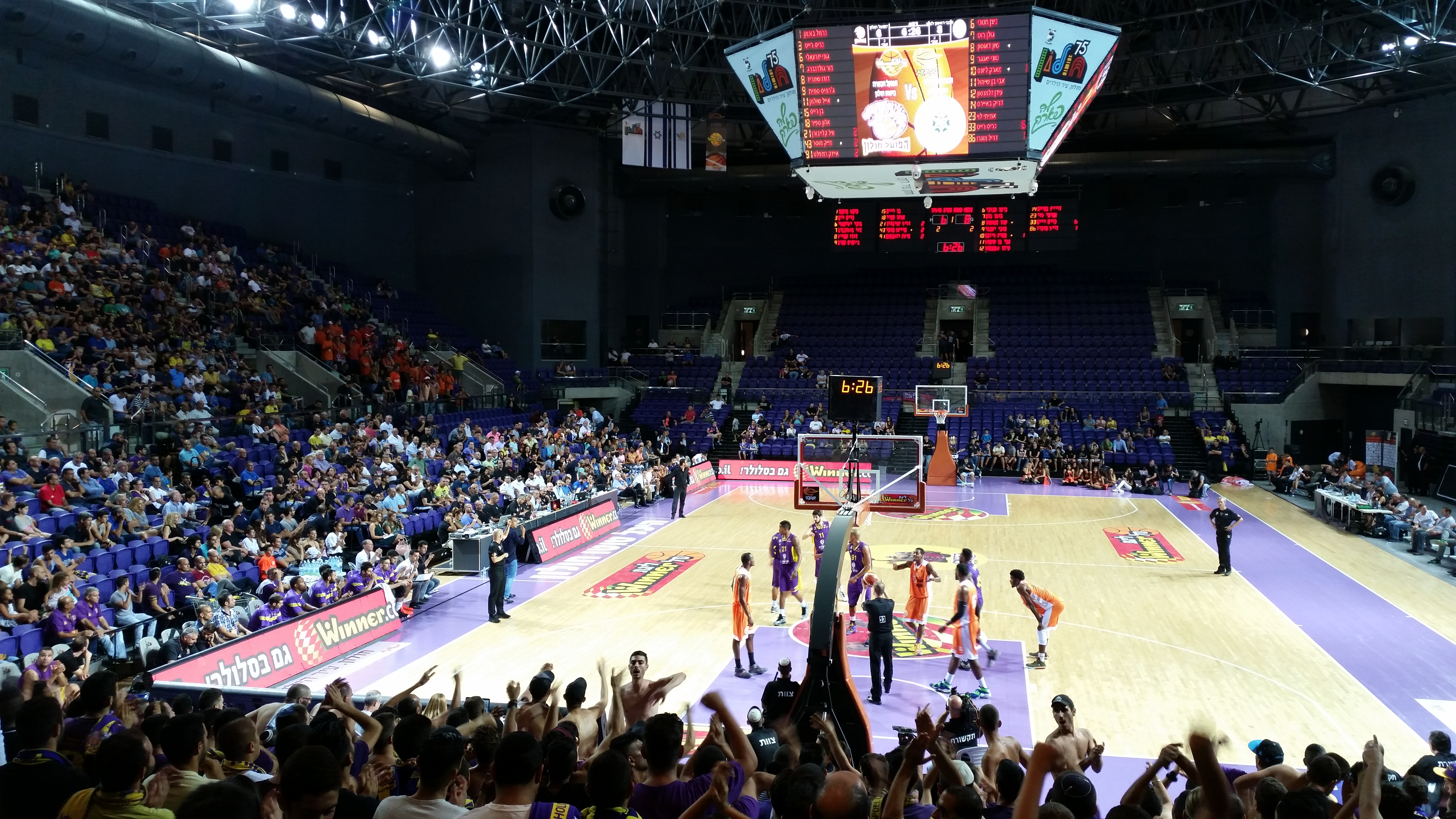 The first official game of Hapoel Holon BC in its new Toto Arena. "Winner Cup" match against Maccabi Rishon LeZion.